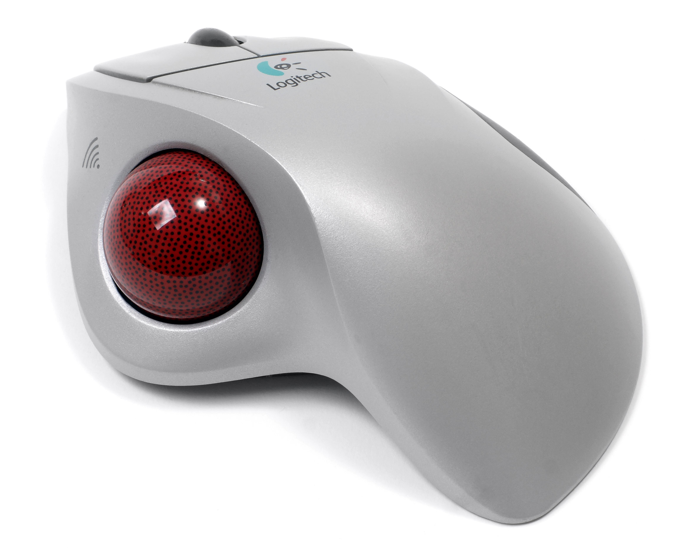 The Wireless Trackman Mouse by Logitech.